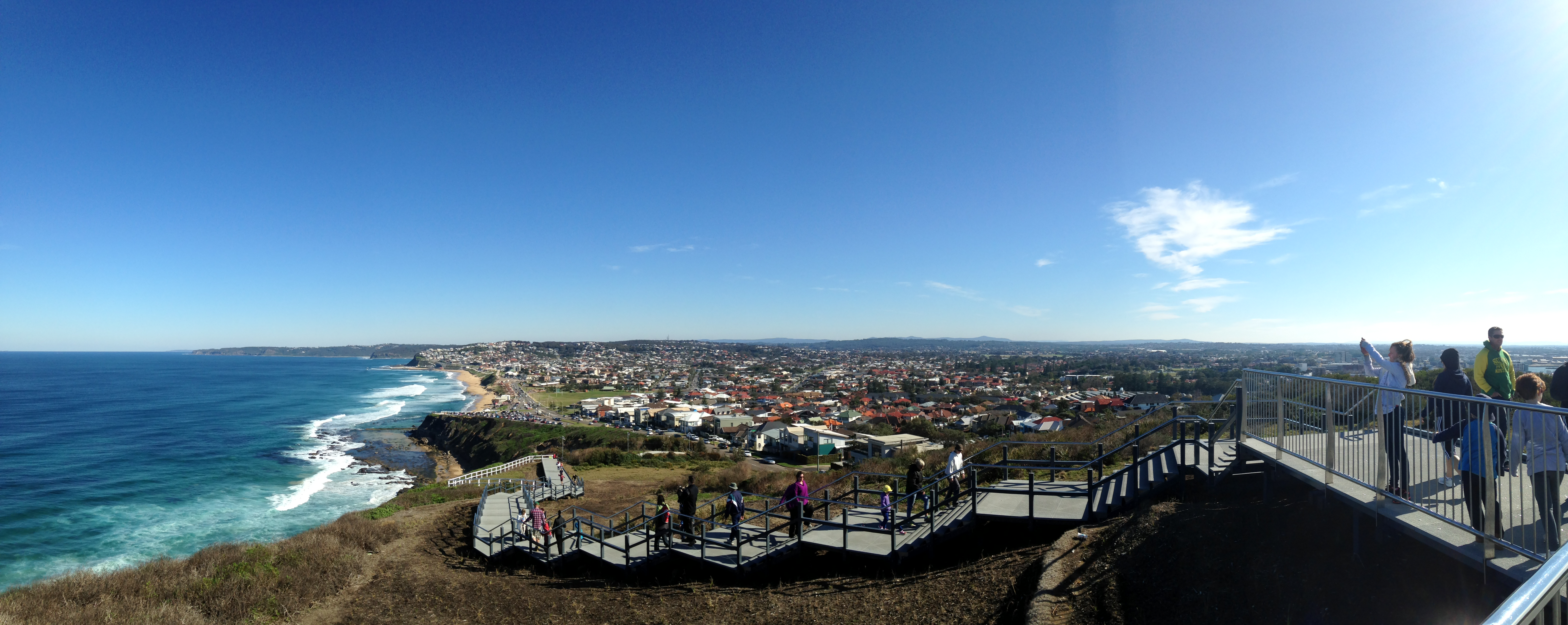 ANZAC Walk in Newcastle NSW, 02/07/2015